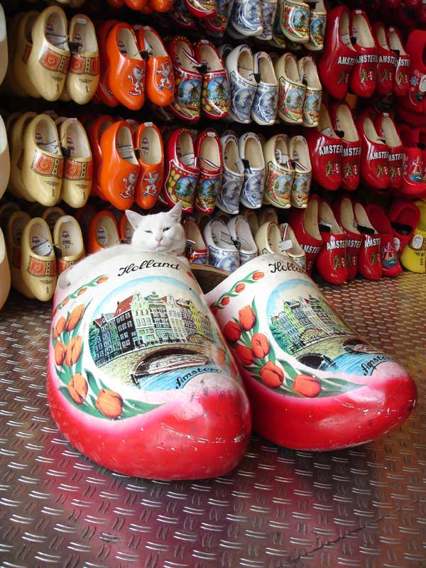 A Cat in a clog, in a clog shop in Amsterdam